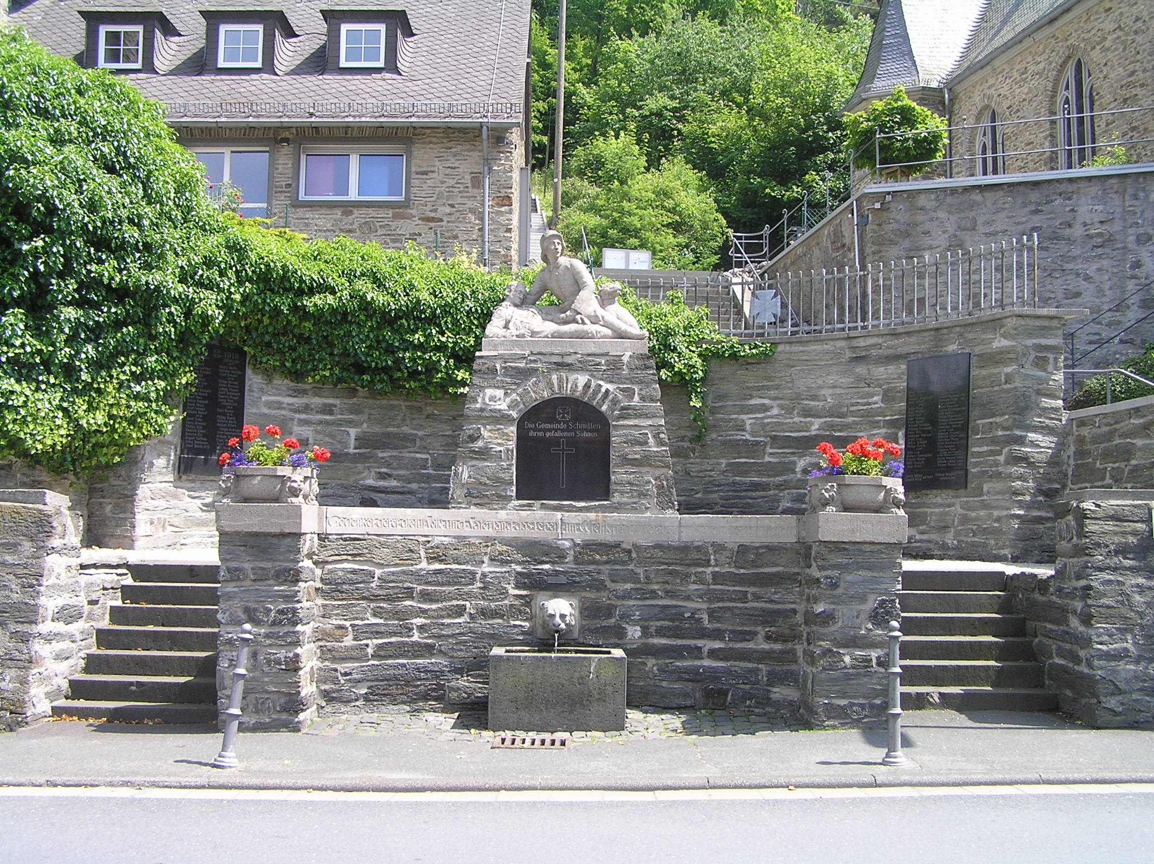 War memorial Schmitten, Hesse, Germany